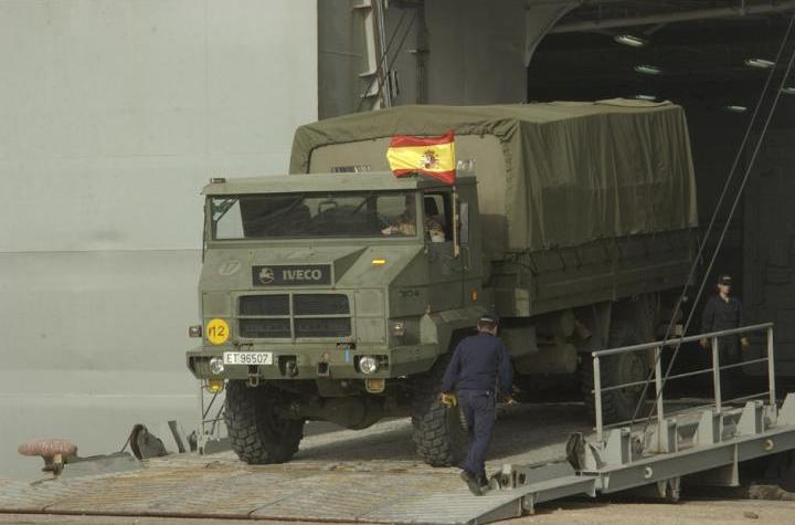 Galicia unloading humanitarian supplies in Iraq.